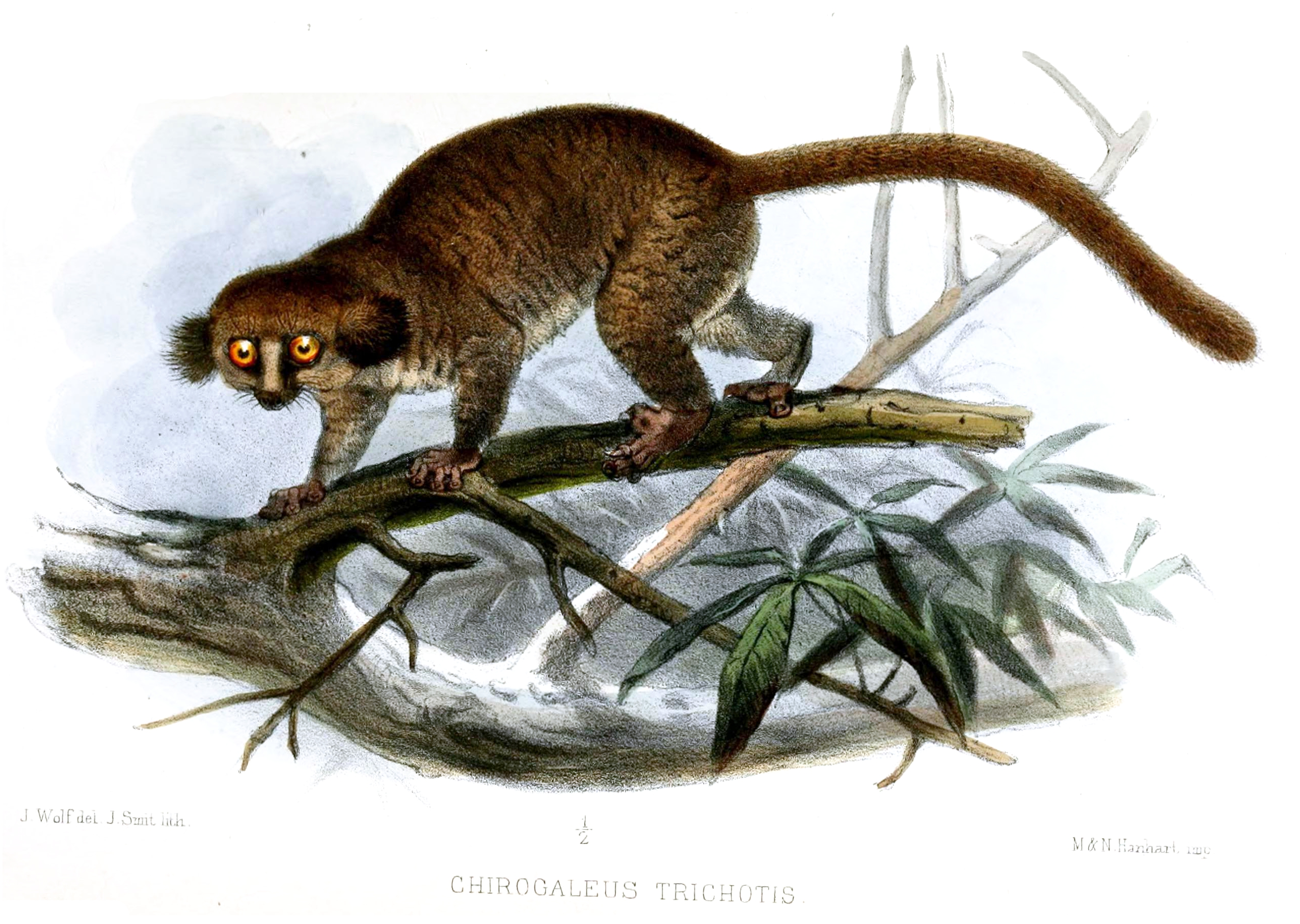 Chirogaleus trichotis = Cheirogaleus trichotis = Allocebus trichotis